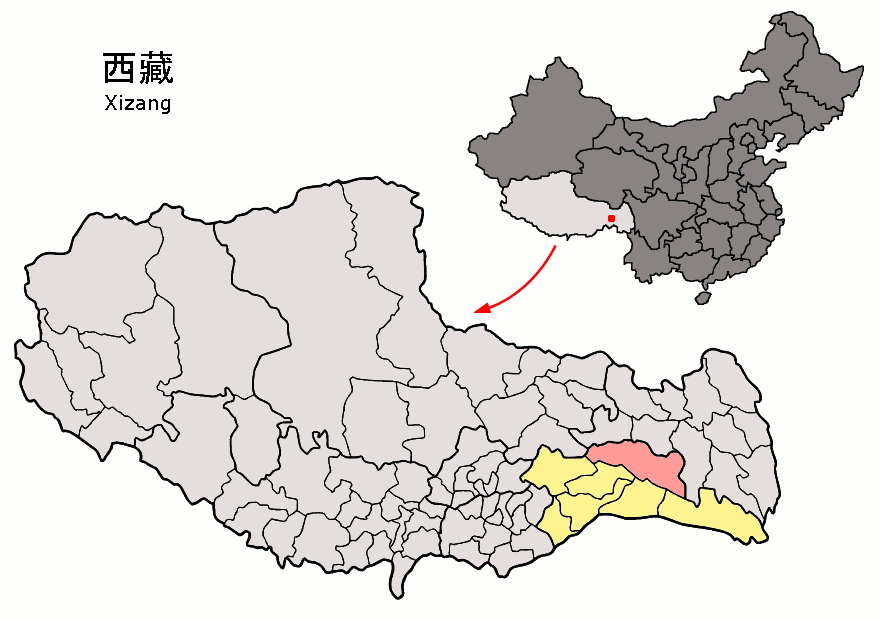 Location of Bomi County (pink) and Nyingchi prefecture (yellow) within Tibet (Xizang) autonomous region of China